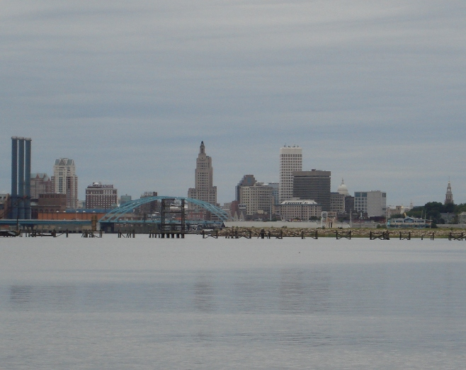 Providence, Rhode Island - Taken September 1st, 2007 by Jeanpaul Ferro.